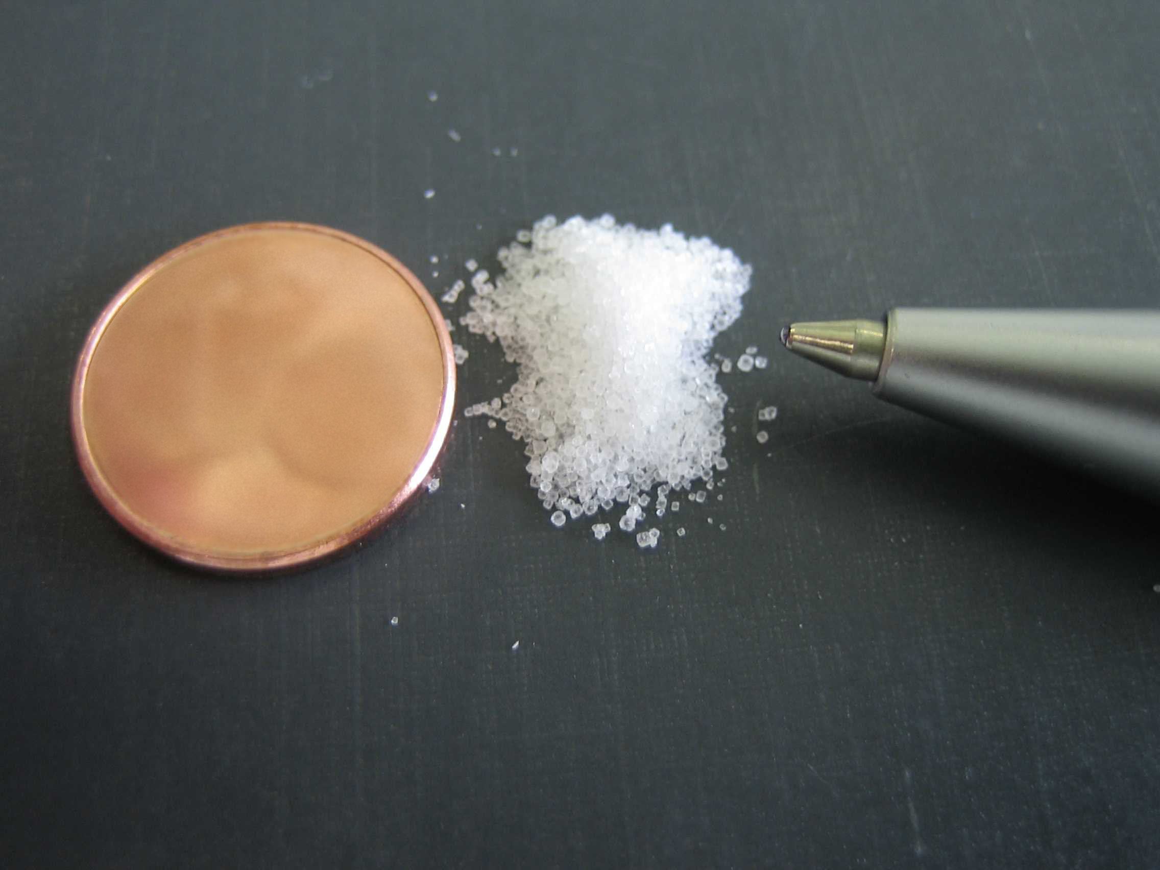 a deadly dose of Potassium cyanide near 1-eurocent coin